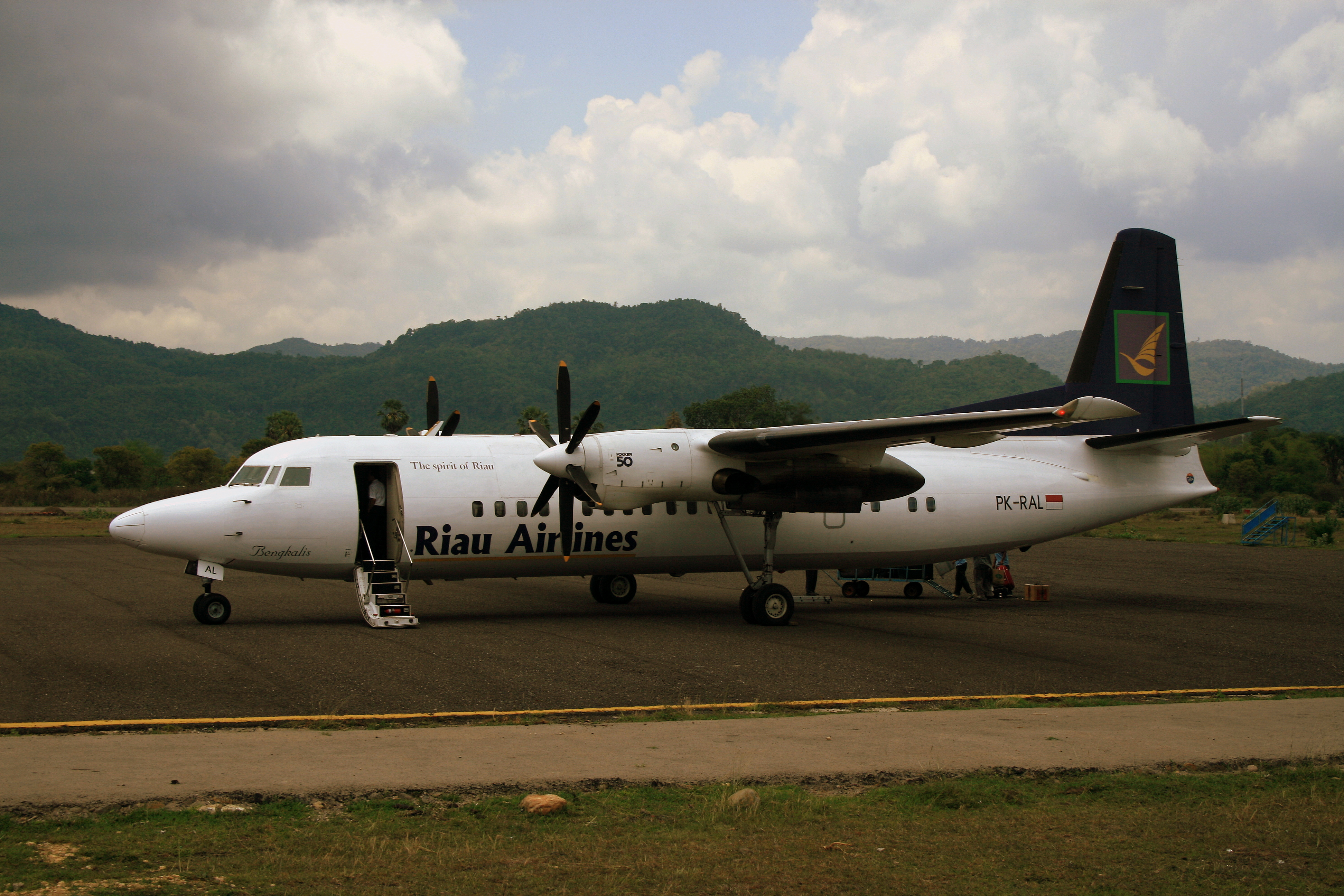 A Riau Airlines Fokker 50 at Labuan Bajo's Komodo Airport. Digital photo of PK-RAL taken at Labuan Bajo Airport, Indonesia and uploaded for use in the Riau Airlines article.